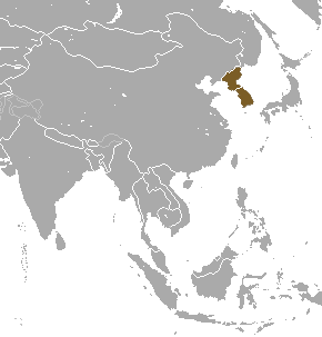 Korean Hare (Lepus coreanus) range